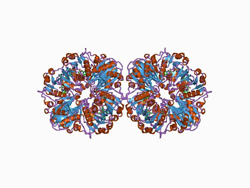 Cartoon representation of the molecular structure of protein registered with 1cer code.